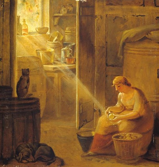 Toile du XVIII ème par Tischbein Johann Heinrich Wilhelm